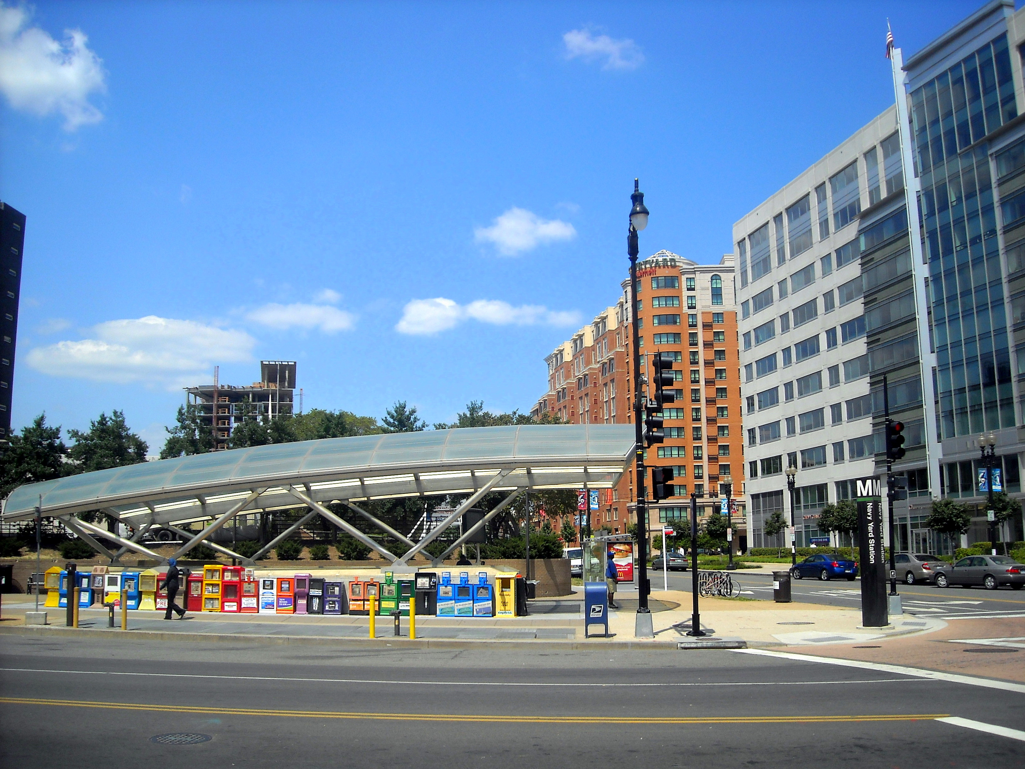 Entrance to the Navy Yard Metro station located at M Street and New Jersey Avenue, SE in Washington, D.C.